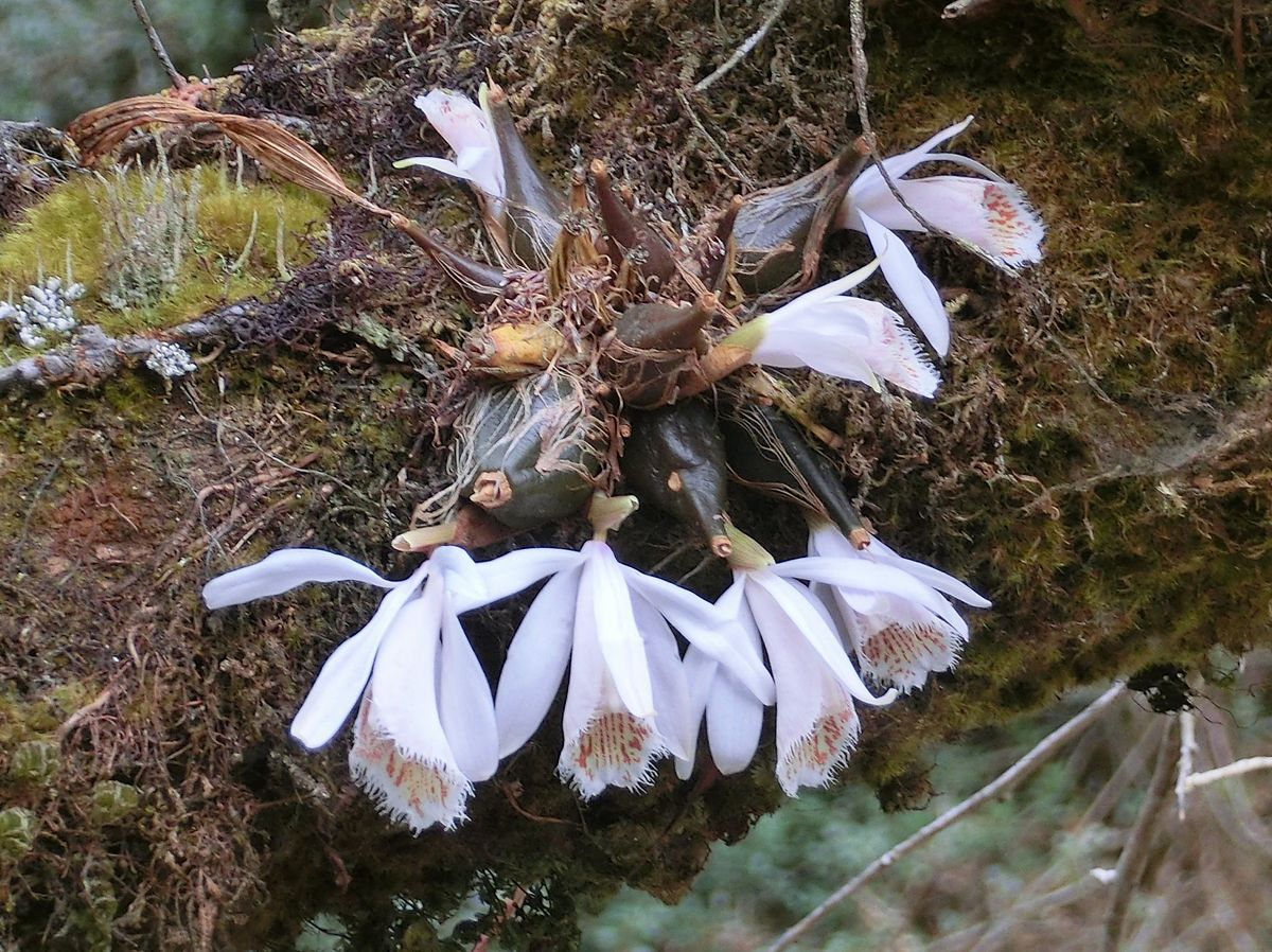 Pleione humilis. Nepal, Annapurna Conservation Area (NW Pokhara), between Tirkedhunga and Ghorepani.